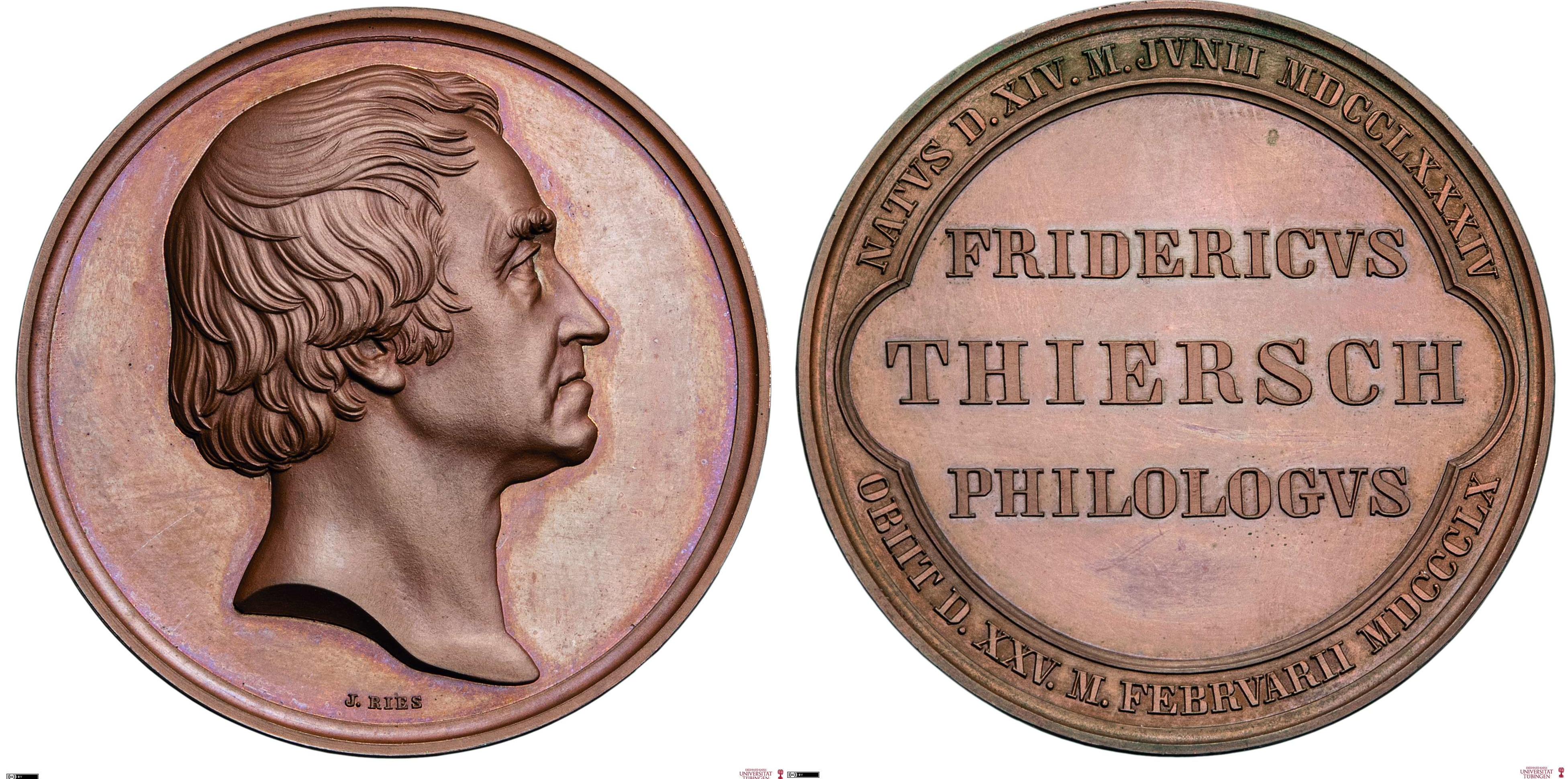 The front side depicts Thiersch with the signature of the engraver Johann Adam Ries placed below. The back side lists in Latinised from the name, profession and date of birth and death of Thiersch.